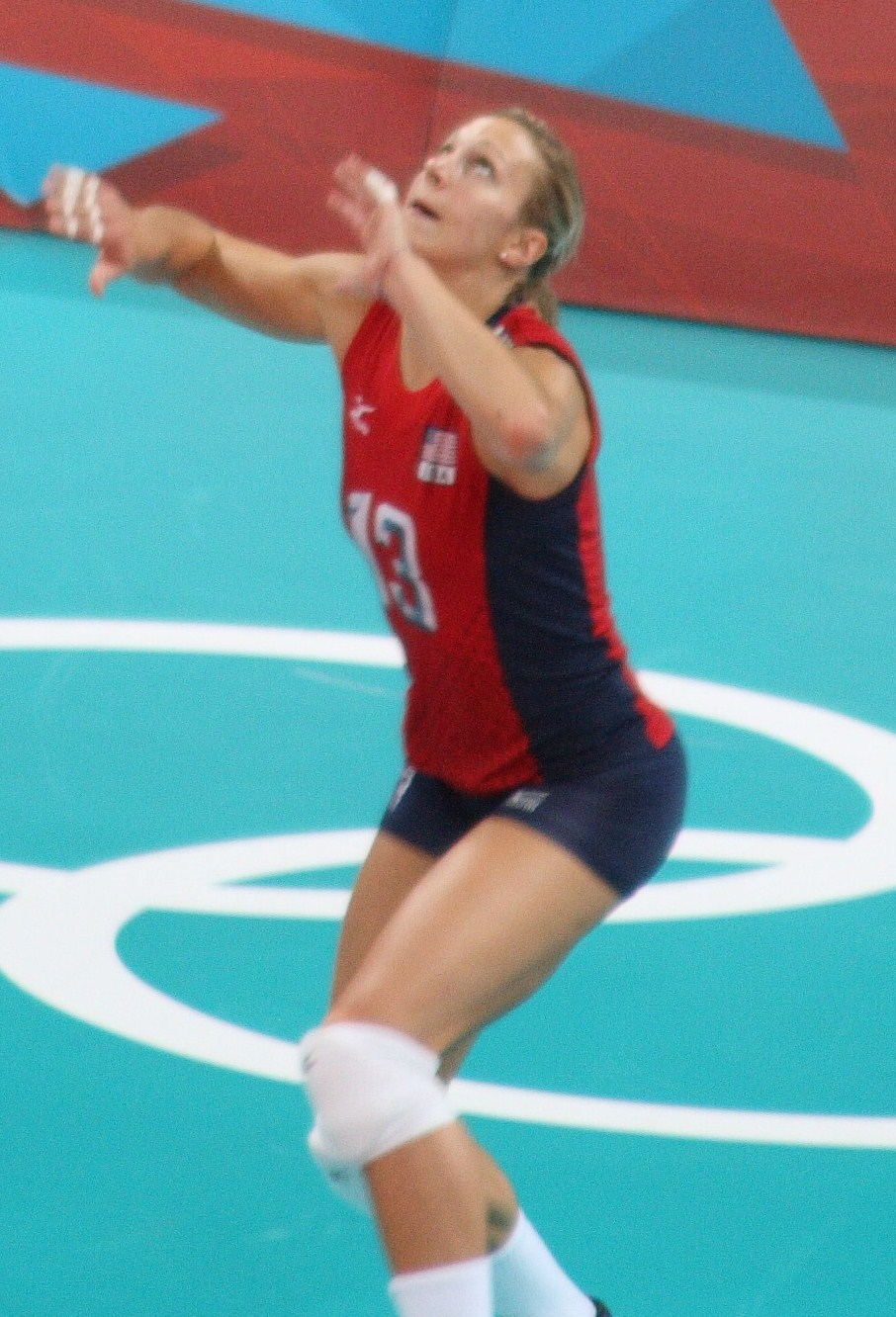 American volleyball player Christa Harmotto.